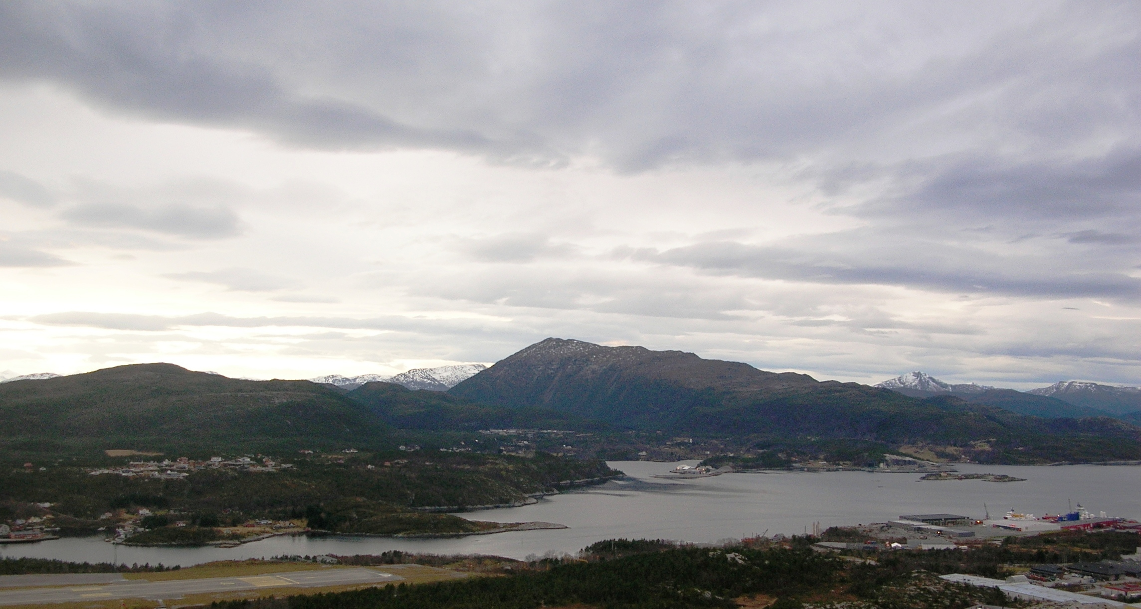 The mountain Freikollen and parts of the island Frei. Picture taken at Kvernberget, a hill in Kristiansund, Møre og Romsdal, Norway